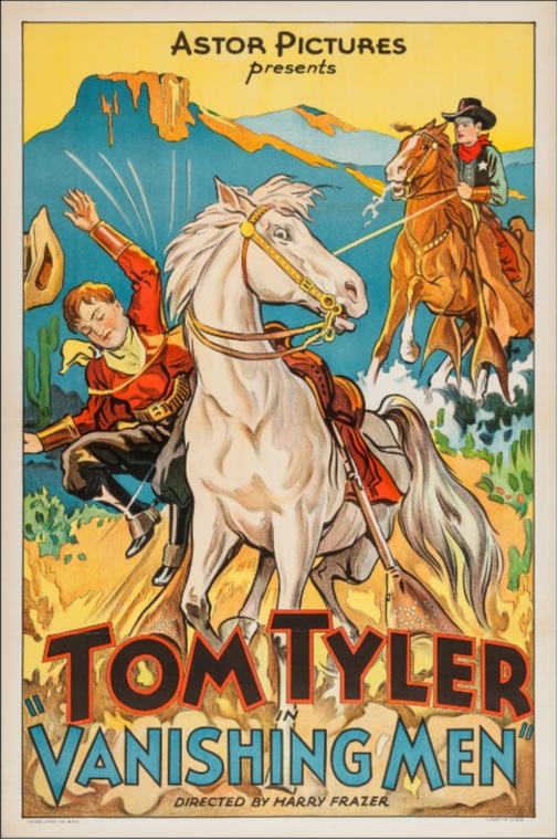 One sheet film poster for the 1937 Astor Pictures re-release of Vanishing Men